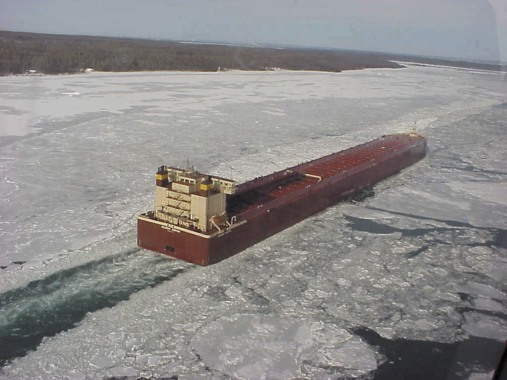 The motor vessel Oglebay Norton passes safely through the St. Marys River after Coast Guard icebreakers did their job earlier on the river.